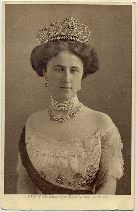 Portrait of Princess Feodora of Saxe-Meiningen (1890–1972), Grand Duchess of Saxe-Weimar